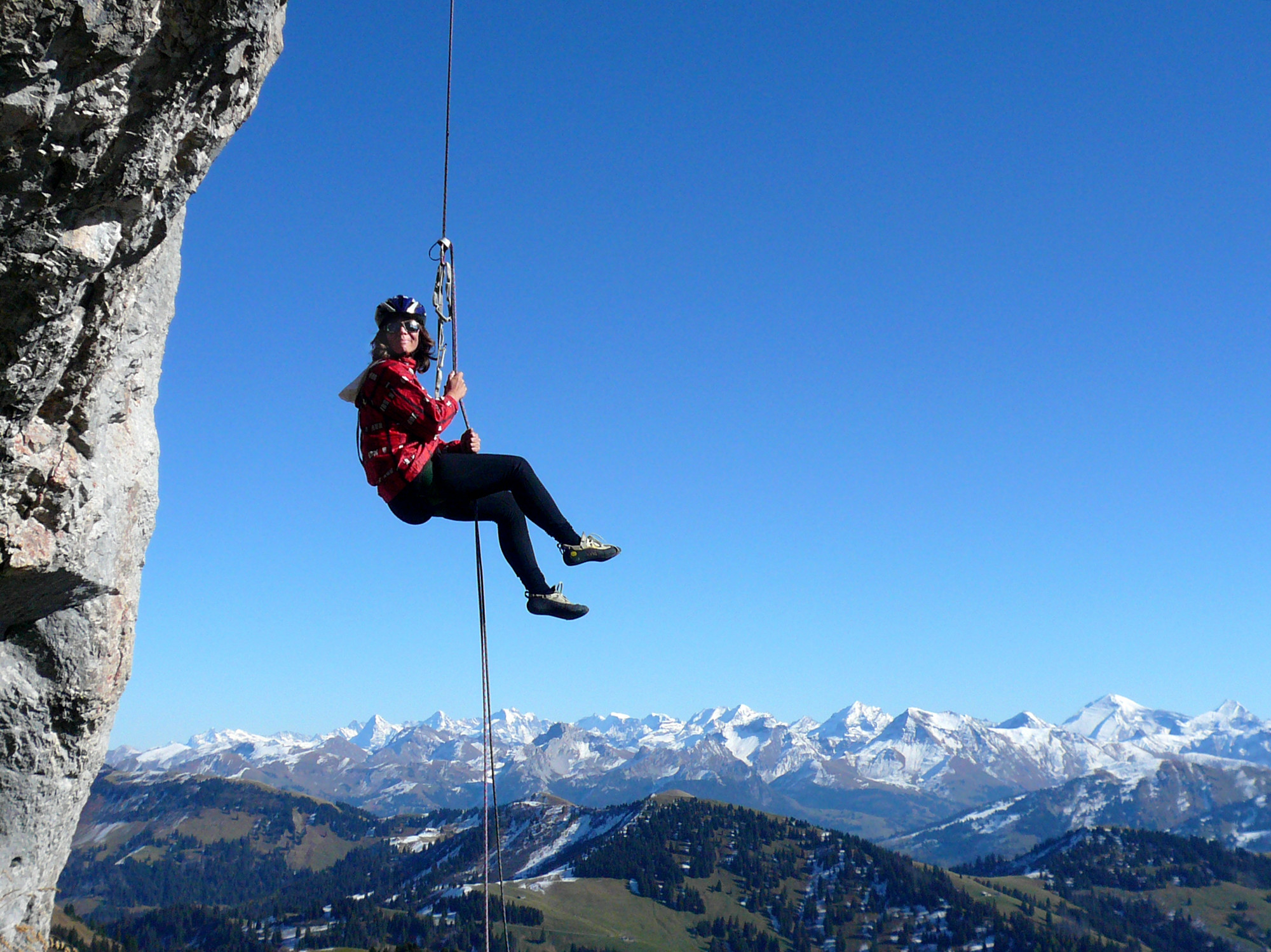 Abseiling, La Jumelle, Switzerland